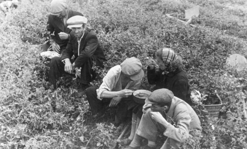 This description has been identified as biased or incorrect: Original caption is Nazi and highly biased. This is clear Nazi propaganda.An der Sowjetfront: (Rumänien) Es geht ihnen nicht schlecht: Juden und Jüdinnen, die bei Kischinew in Bessarabien zu Straßenarbeiten herangezogen wurden, bei der Mittagsmahlzeit. PK-Aufnahme: Kriegsberichter: Klose (Sch.) 7928-41 Information added by Wikimedia users.English (rough translation of Nazi caption): Romania: Kisheniev, Jews on lunch break. On the Soviet Front: Things aren't so bad for them. Jews and Jewesses who were put to punitive labor work near Kisheniev in Bessarabia, at lunchtime.